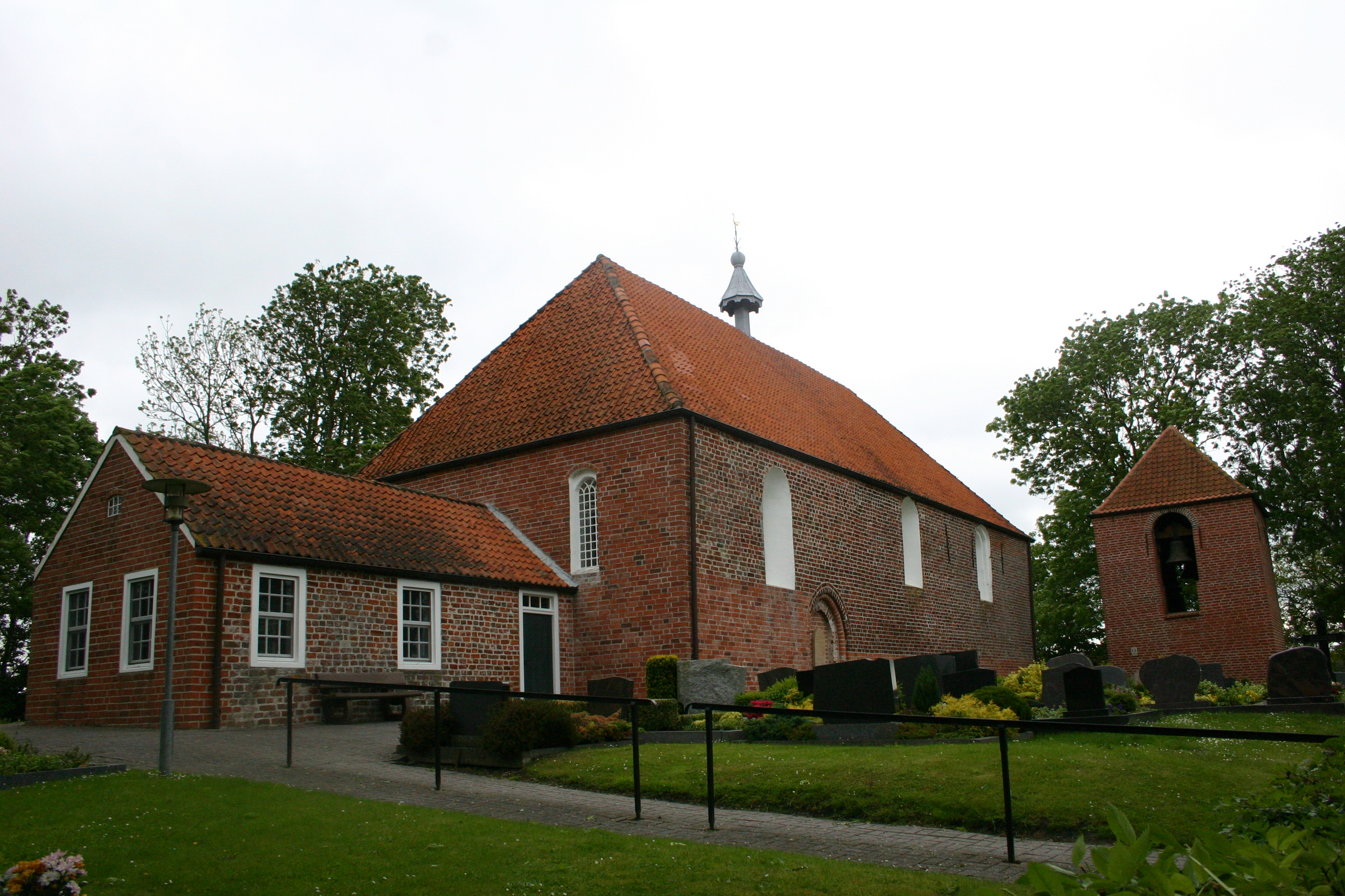 Historic St. Matthew Church in Resterhafe, district of Aurich, East Frisia, Germany